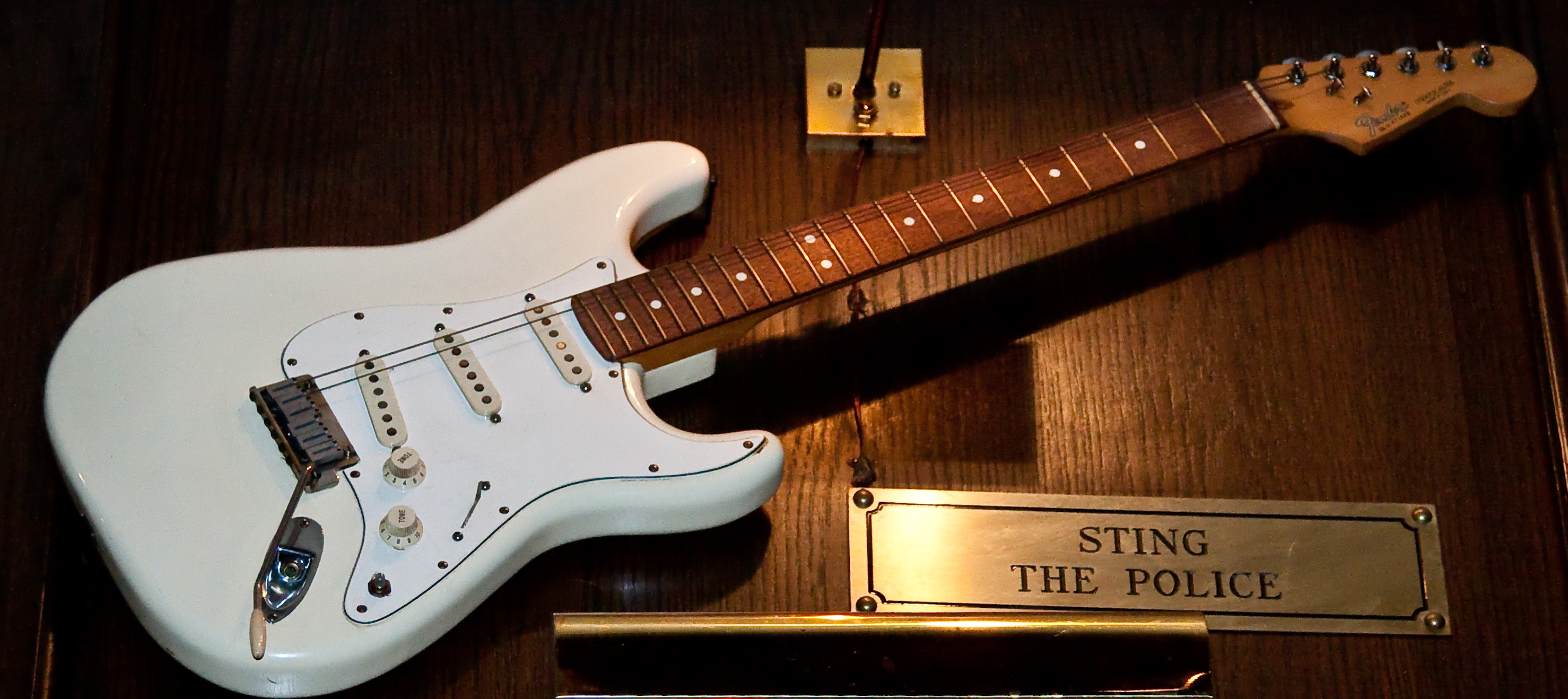 Sting's Fender Stratocaster, Hard Rock Café Caïro